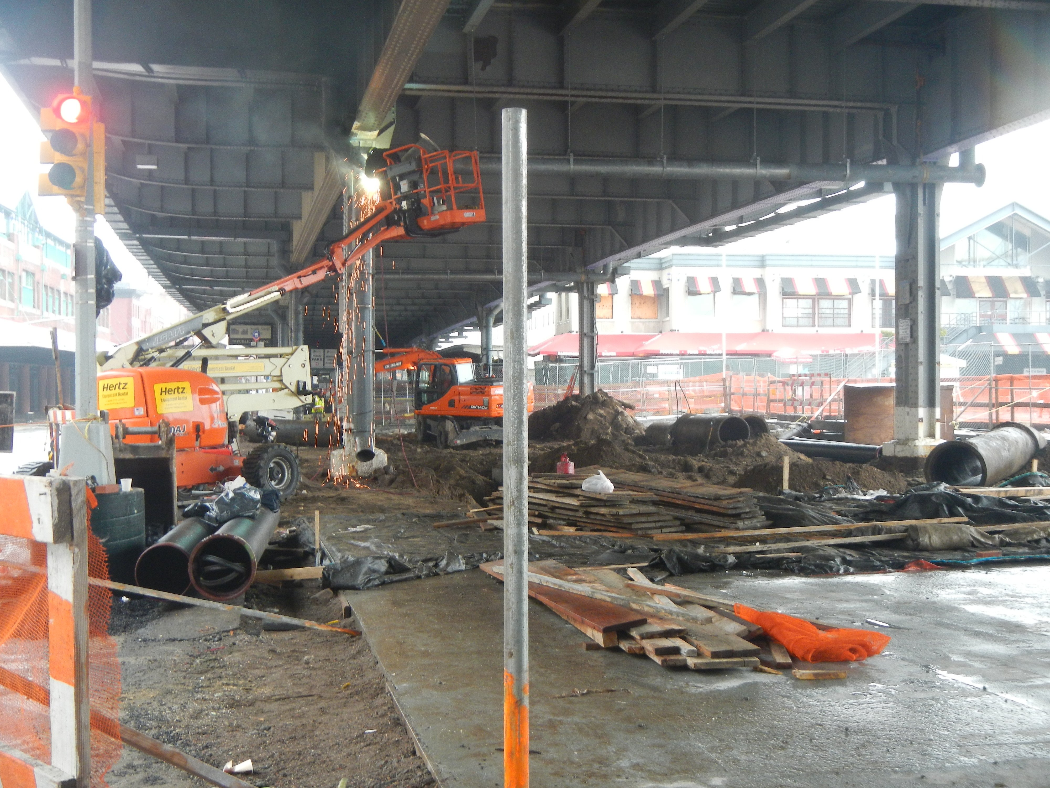 Looking east at welding in what is to be an esplanade, on a winter afternoon.